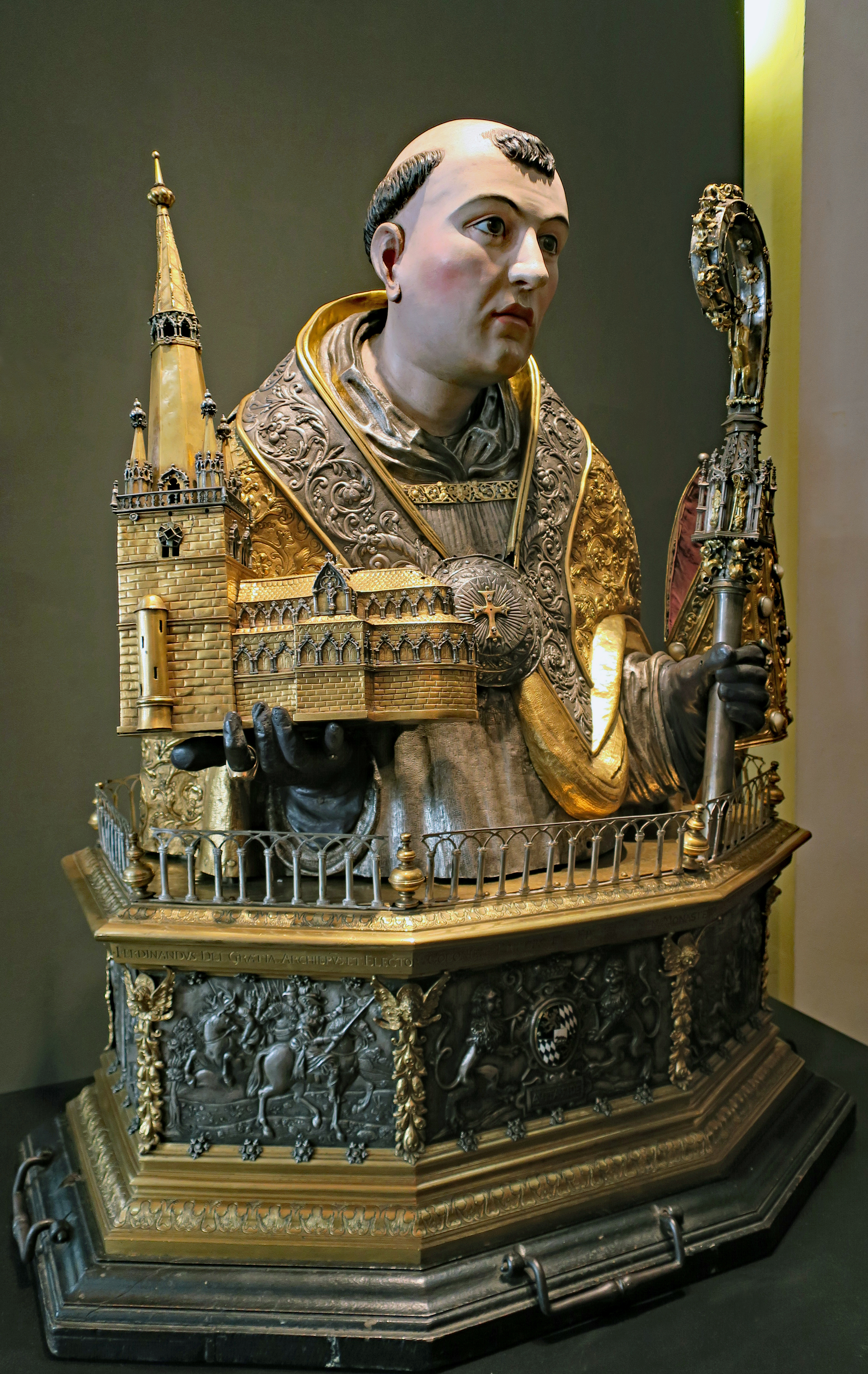 Bust-reliquary of Saint-Poppon (1626) executed by the Liégeois Jean Goesin. With the dominant bust of Poppon bearing the model of the abbey church in the right hand, with his left hand his butt, while his bolster is placed vertically beside it, the whole is of a rather spectacular appearance. More discreet and much finer is the work performed at the base. A dozen bas-relief plaques relate the main events of Poppon's life. Conserved in the church of San Sebastián de Stavelot, this bust-reliquary has been classified among the exceptional properties of Wallonia by the Federation Wallonie-Bruxelles.